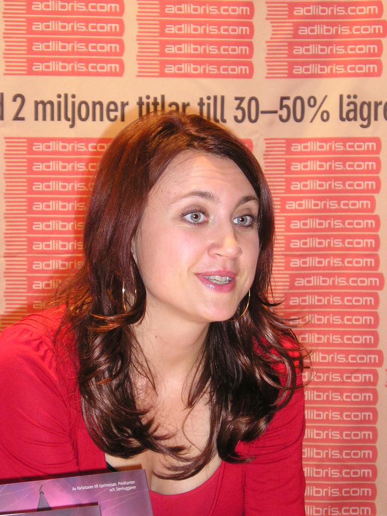 Swedish author, Camilla Läckberg, during the 2006 Gothenburg Bookfair